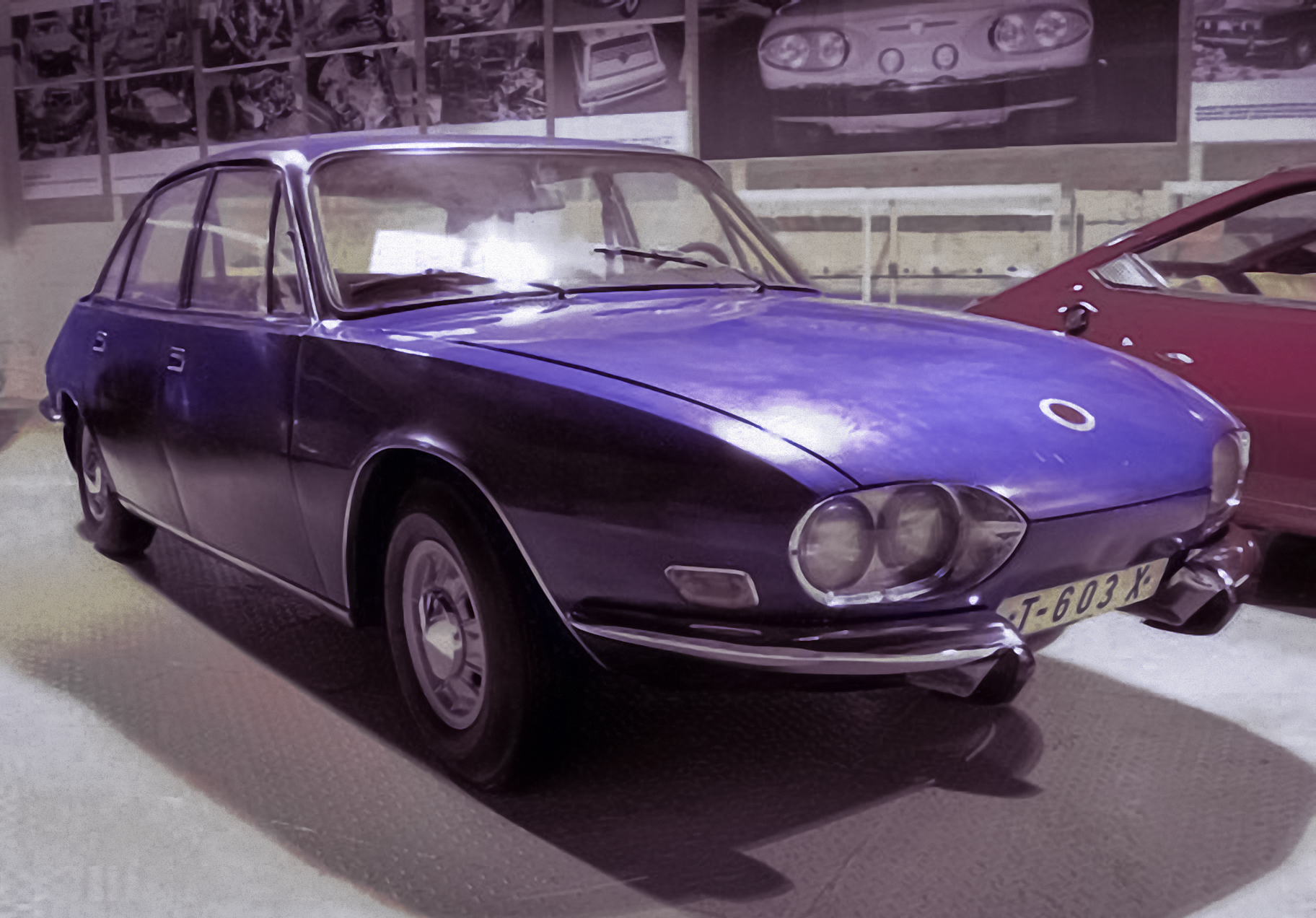 Tatra 603 X(1966) prototype at Transport museum Bratislava, Slovakia Photo: Ondrej Ertl (2006)